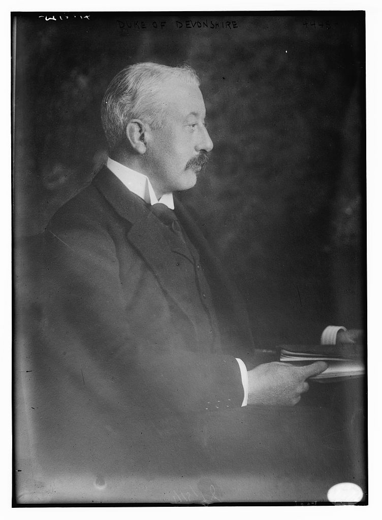 Victor Cavendish, 9th Duke of Devonshire in 1918